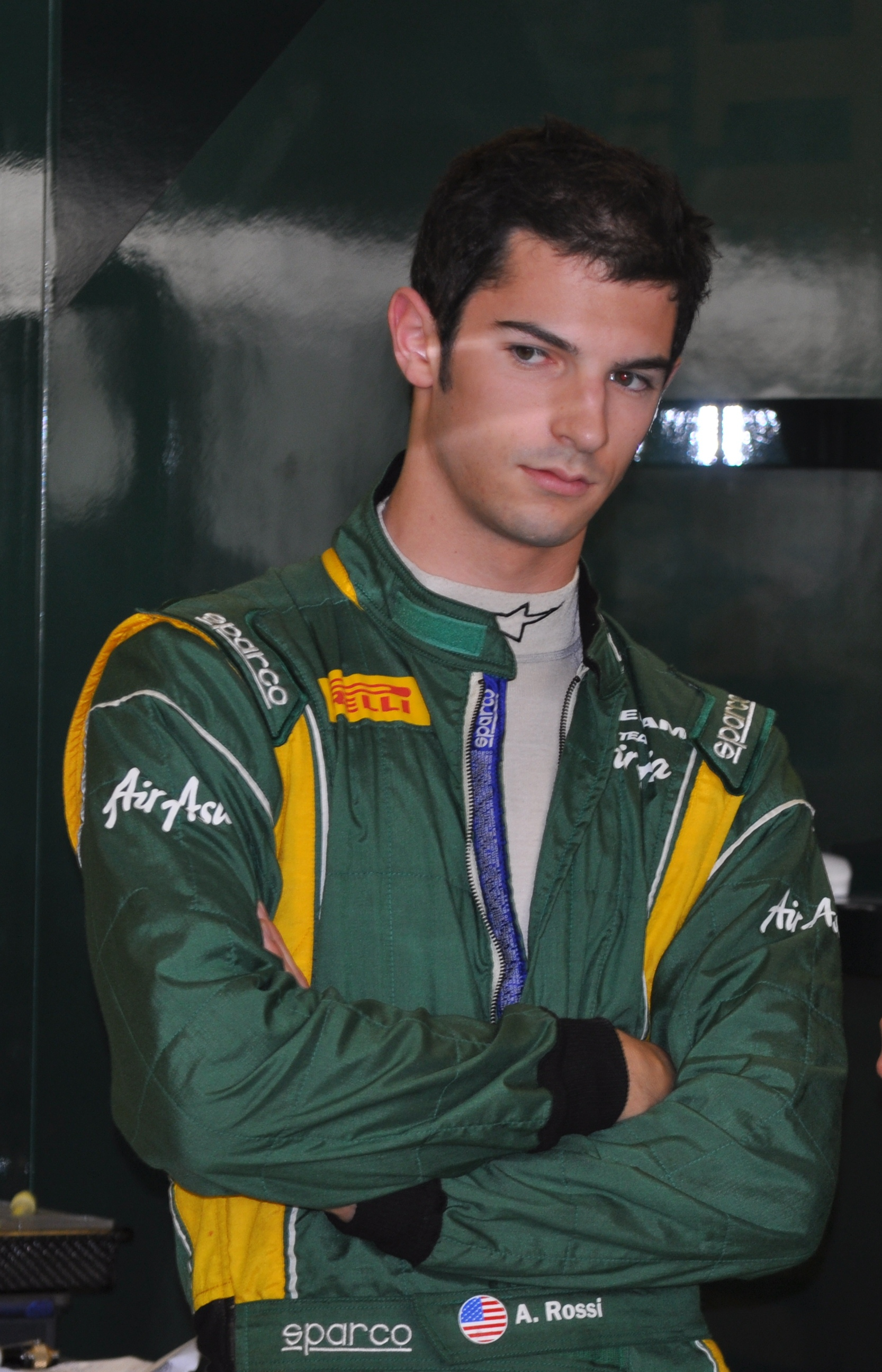 Alexander Rossi in Abu Dhabi.